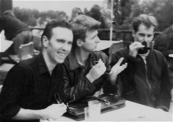 Crowded House at the Montreux Pop Festival, Montreux, Switzerland. L to R: Nick Seymour, Neil Finn, Paul Hester